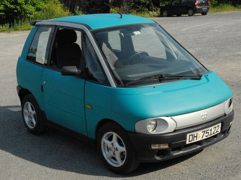 A Pivco PIV3 electrical vehicle